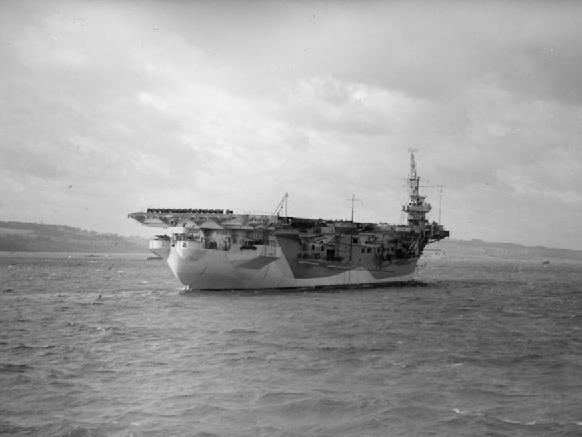 the British Bogue/Ameer class escort carrier HMS Khedive (D62) underway, in coastal waters.